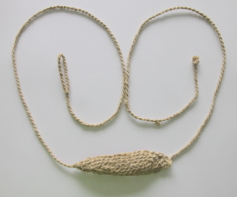 Sling from Holland.